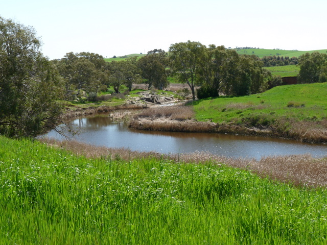 Light River at St Johns, near Kapunda, South Australia